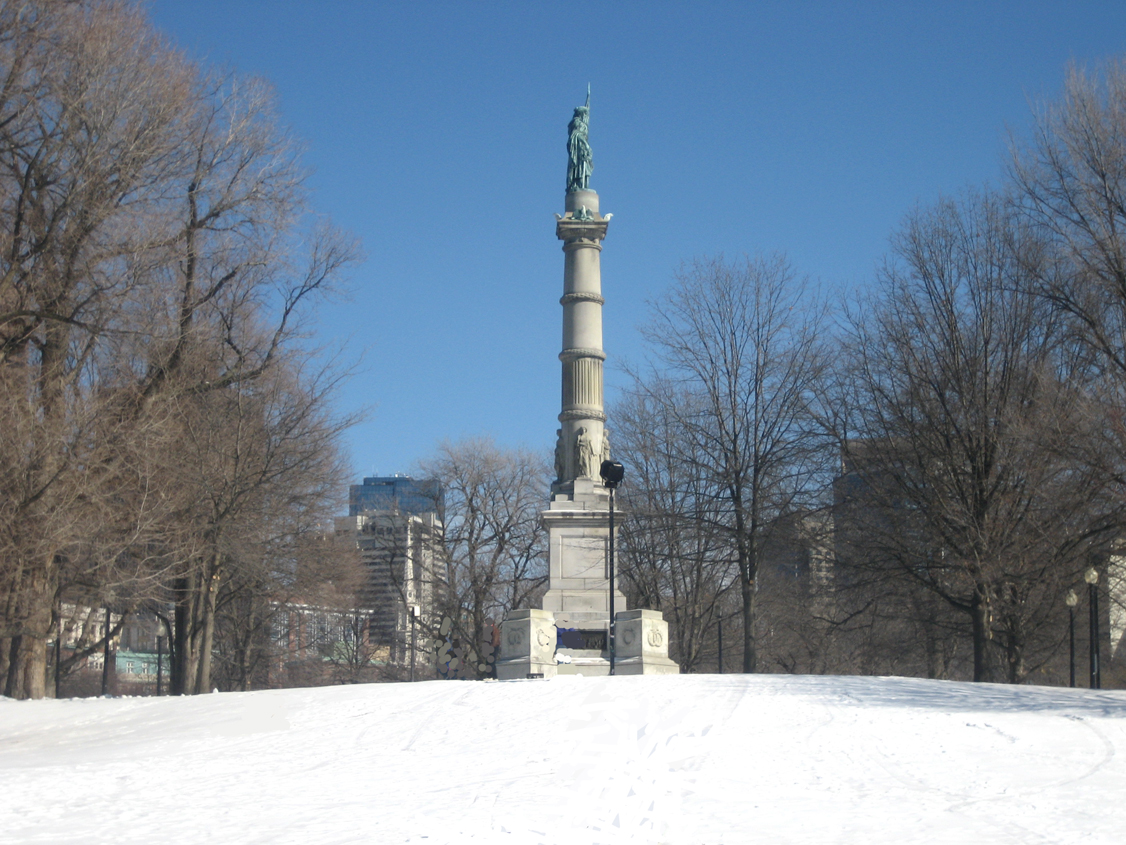 Soldiers and Sailors Monumnet, Boston Common, Boston, MA USA